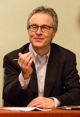 Stephen Halliwell on President's Panel at American Society of Classical Studies, New Orleans, January 2015